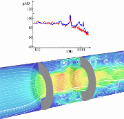 Aeroacoustics of a double diaphragm in a pipe flow: Comparison of RANS simulated and experimental frequency spectra